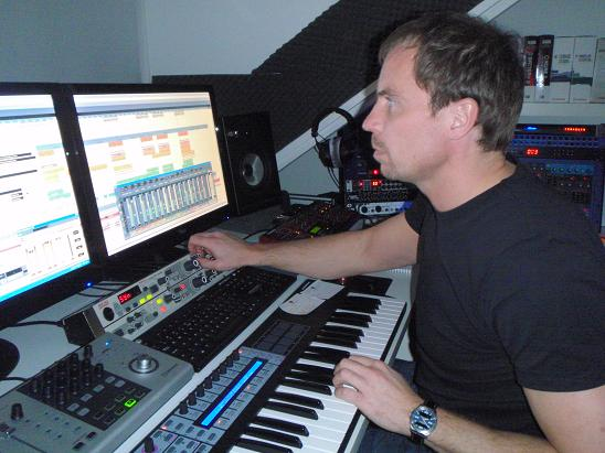 Peter Francken in his home studio